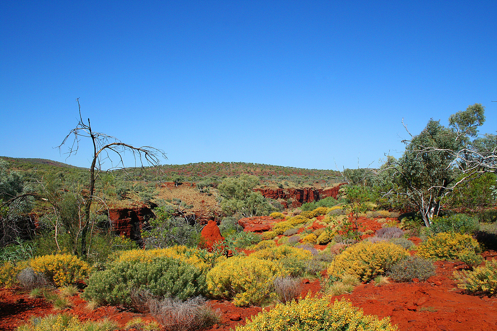 Colors of Karijini NP (WA)